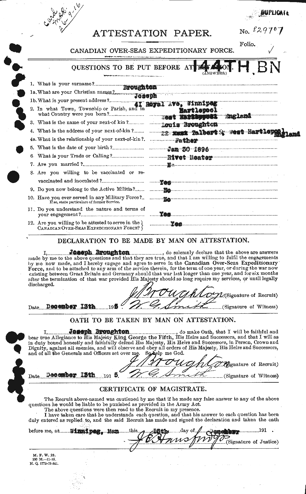 Attestation paper to the 144th